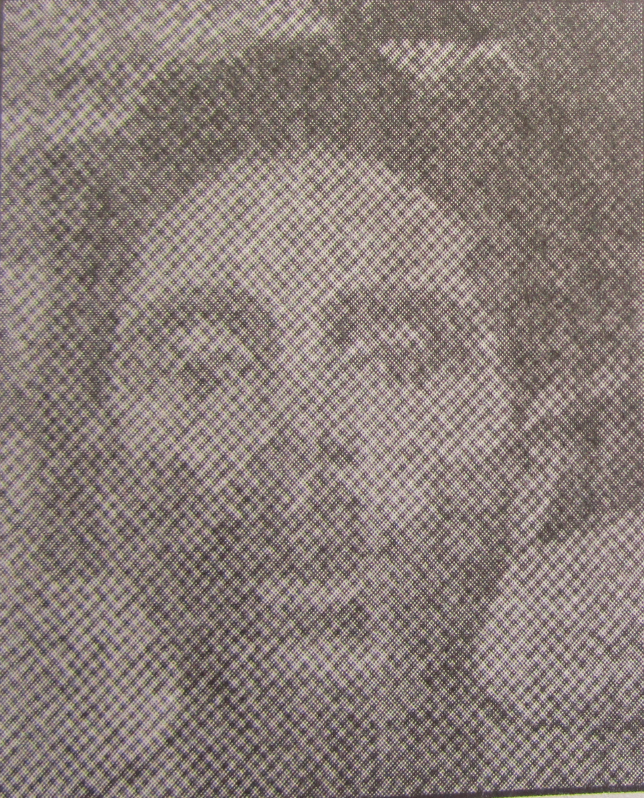 Tarini Majumder